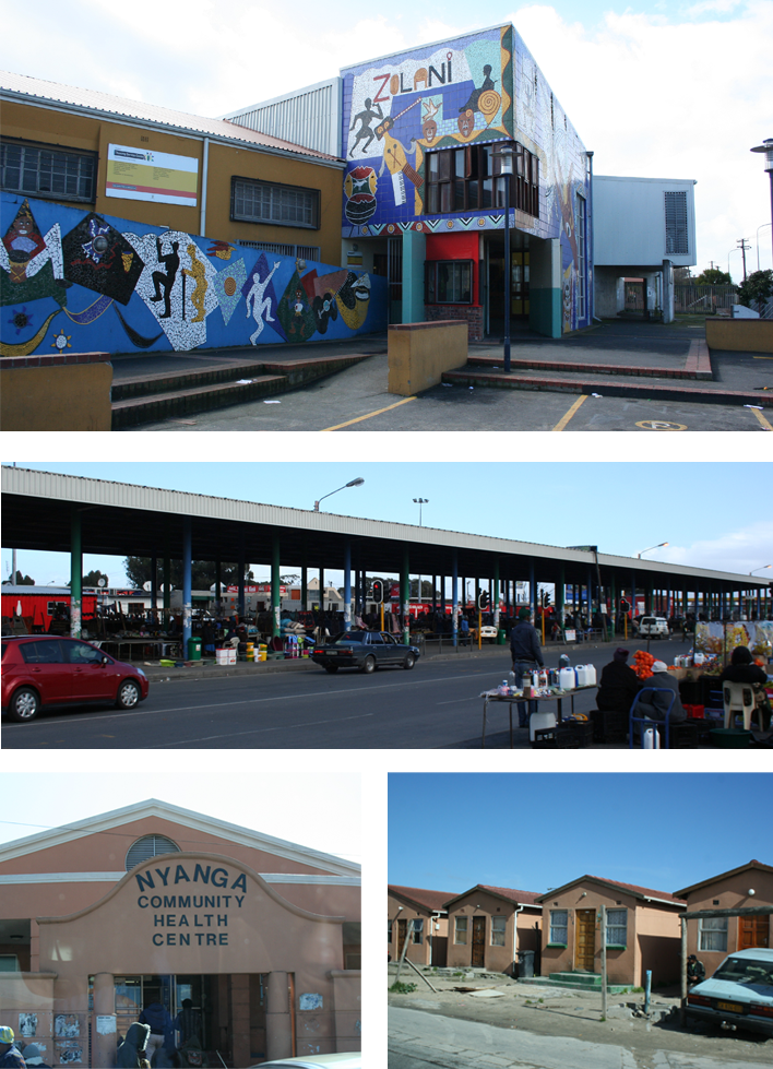 This is a collection of notable landmarks and locations in the township of Nyanga, Cape Town, South Africa. Top: Zolani Recreational Centre. Middle: Nyange taxi rank. Bottom right: Nyanga Community Health Centre Bottom left: government built RDP houses that are common in the area.